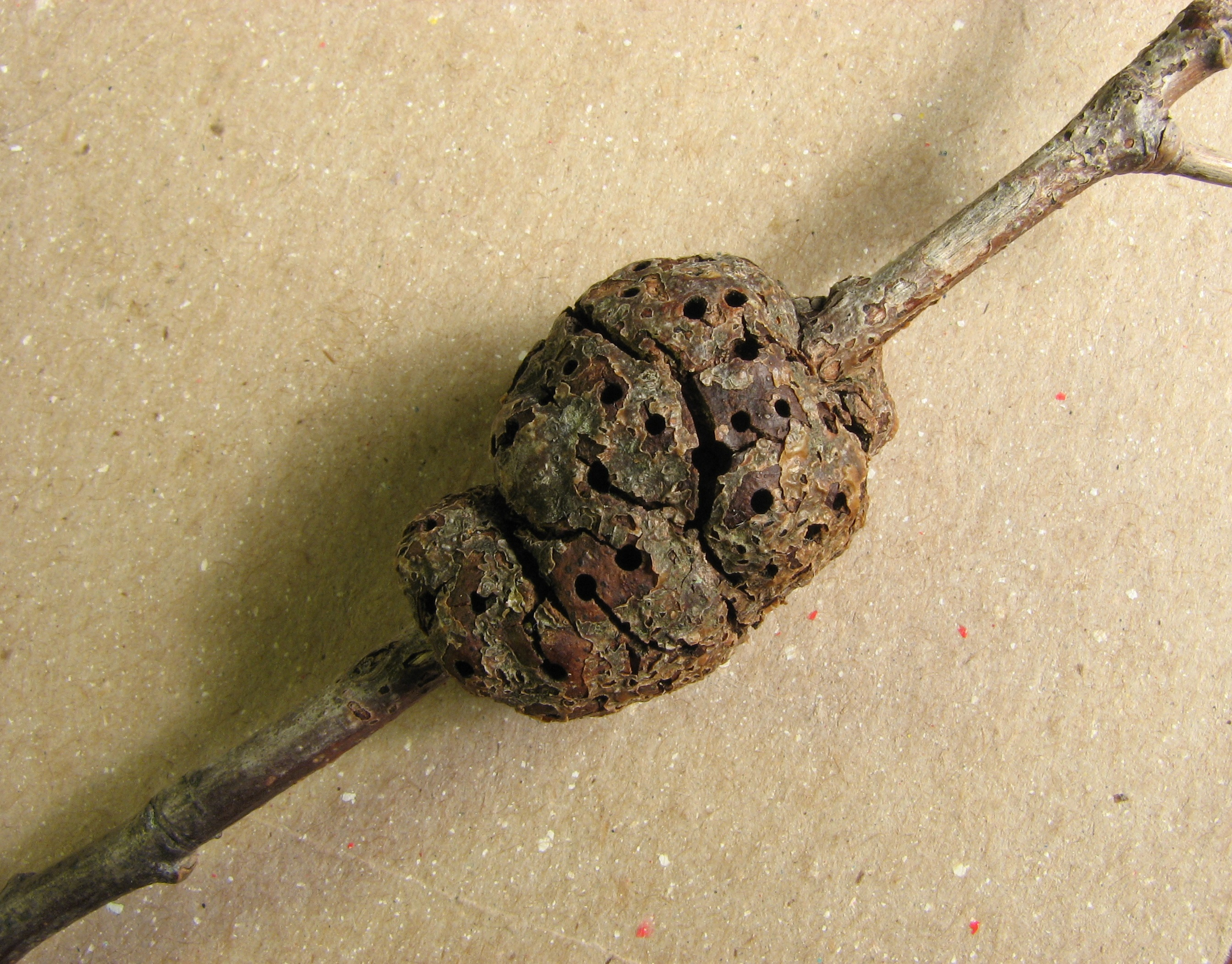 Gouty Oak Gall Wasp, Callirhytis quercuspunctata, on oak. Size: 3 cm. Edwin B Forsythe National Wildlife Refuge , Ocean County, New Jersey, USA.